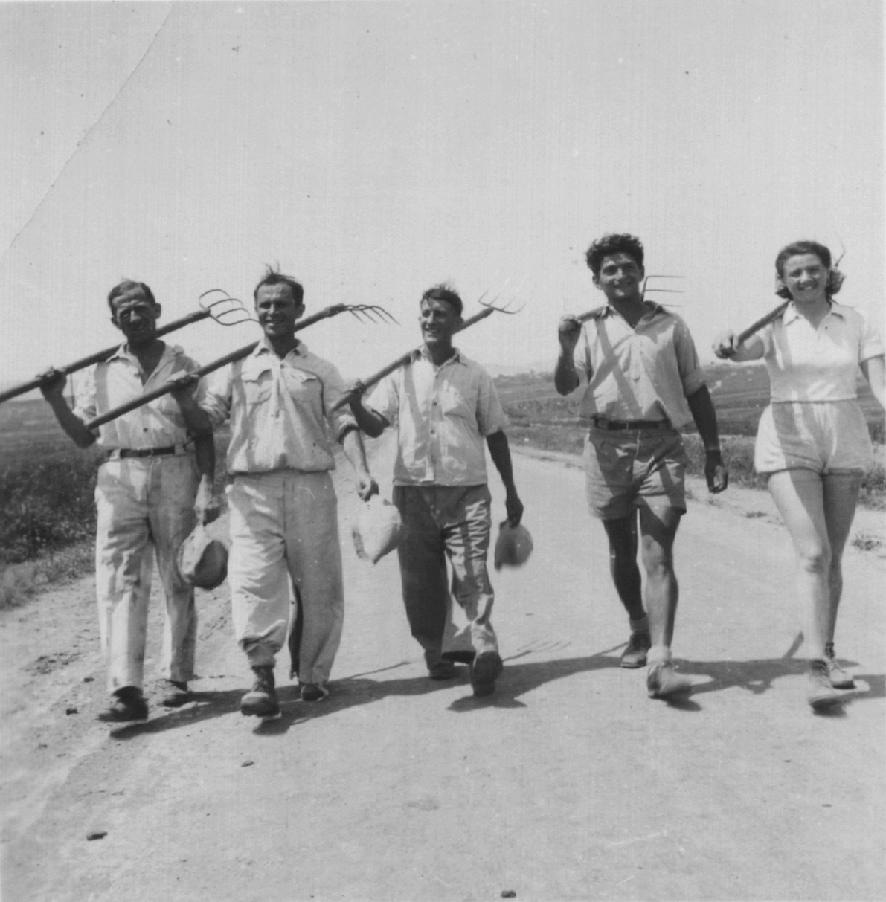 Picture of Samek Yanai and haverim on kibbutz Neve Eitan, 1939